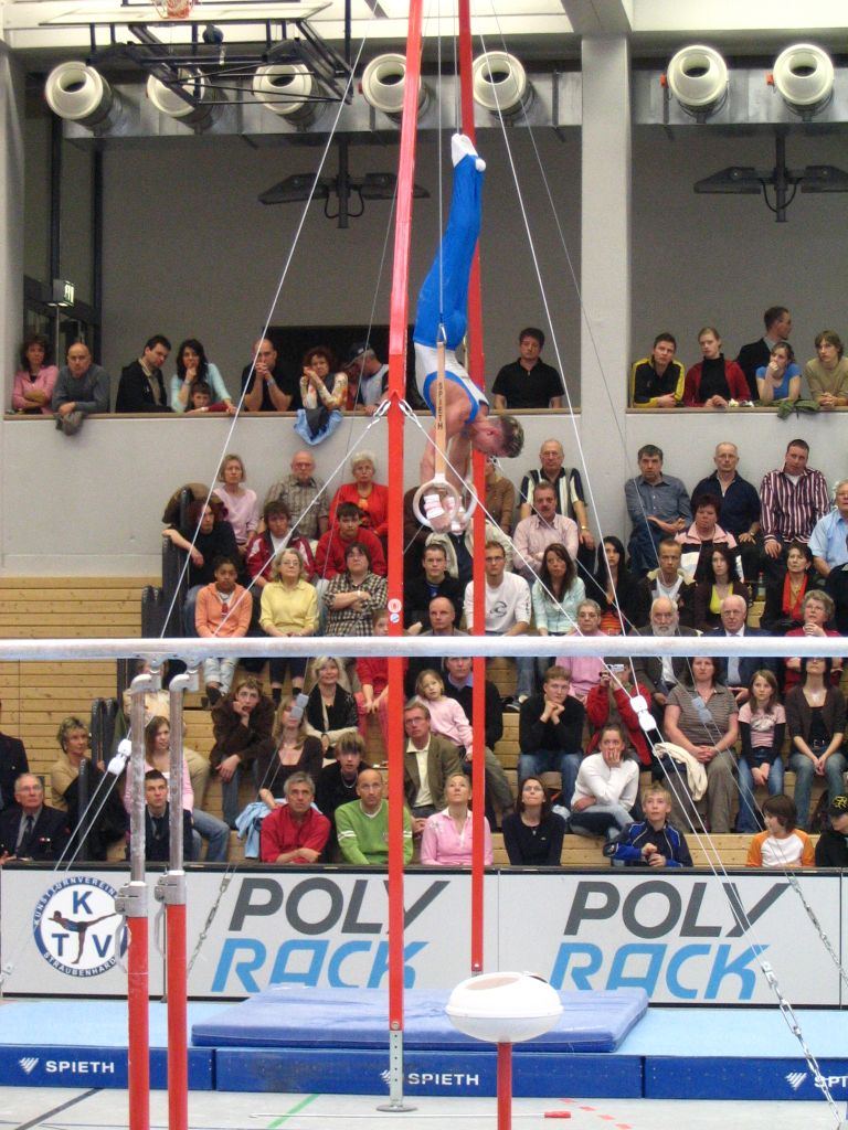 Competition of the KTV Straubenhardt (a Gymnastics club) in Straubenhardt, Germany